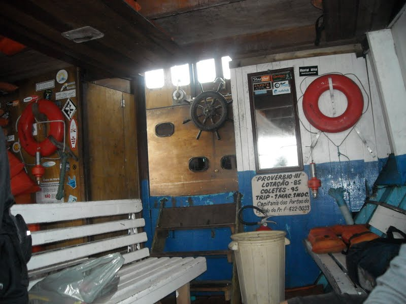 The inside look of the boat to Ilha do Mel, Paraná, Brazil